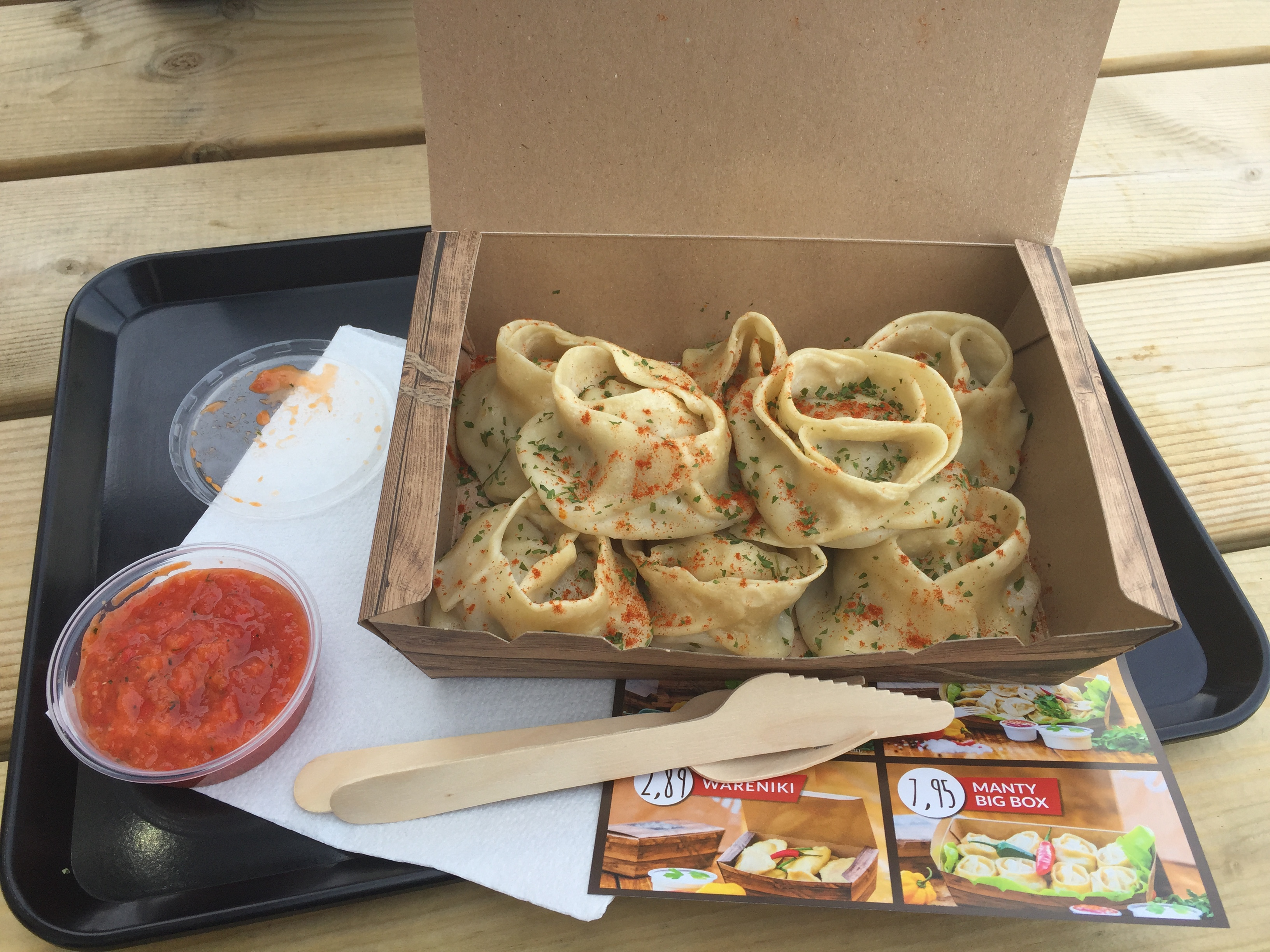 Manti as a fast food dish / Lage (Lippe), Germany